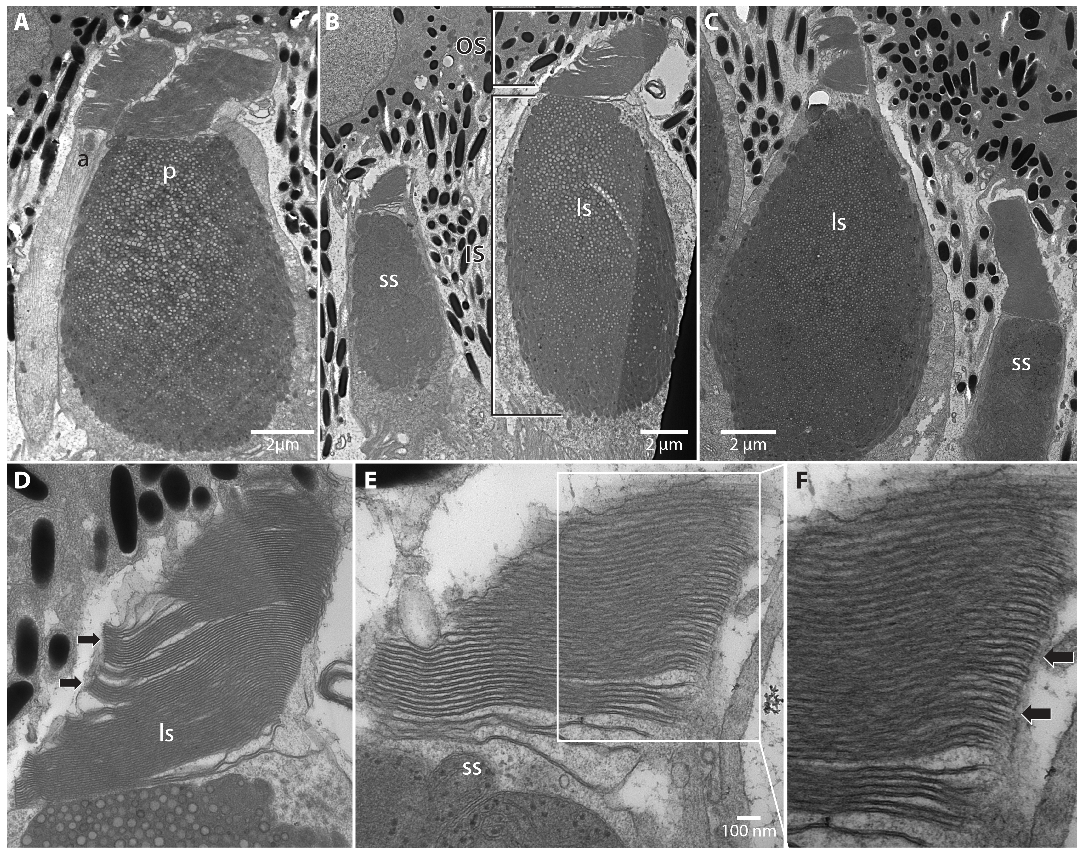 Transmission electron microscope (TEM) images of Thamnophis proximus photoreceptor cells.